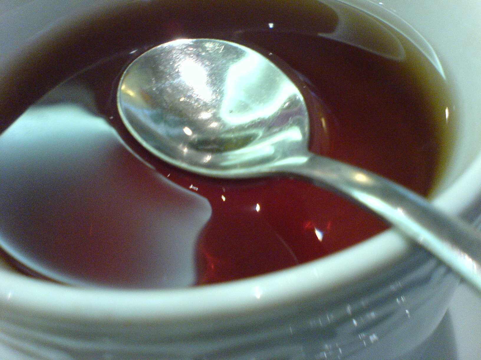 Because of surface tension a tea spoon is floating on a cup of tea (Earl Grey).